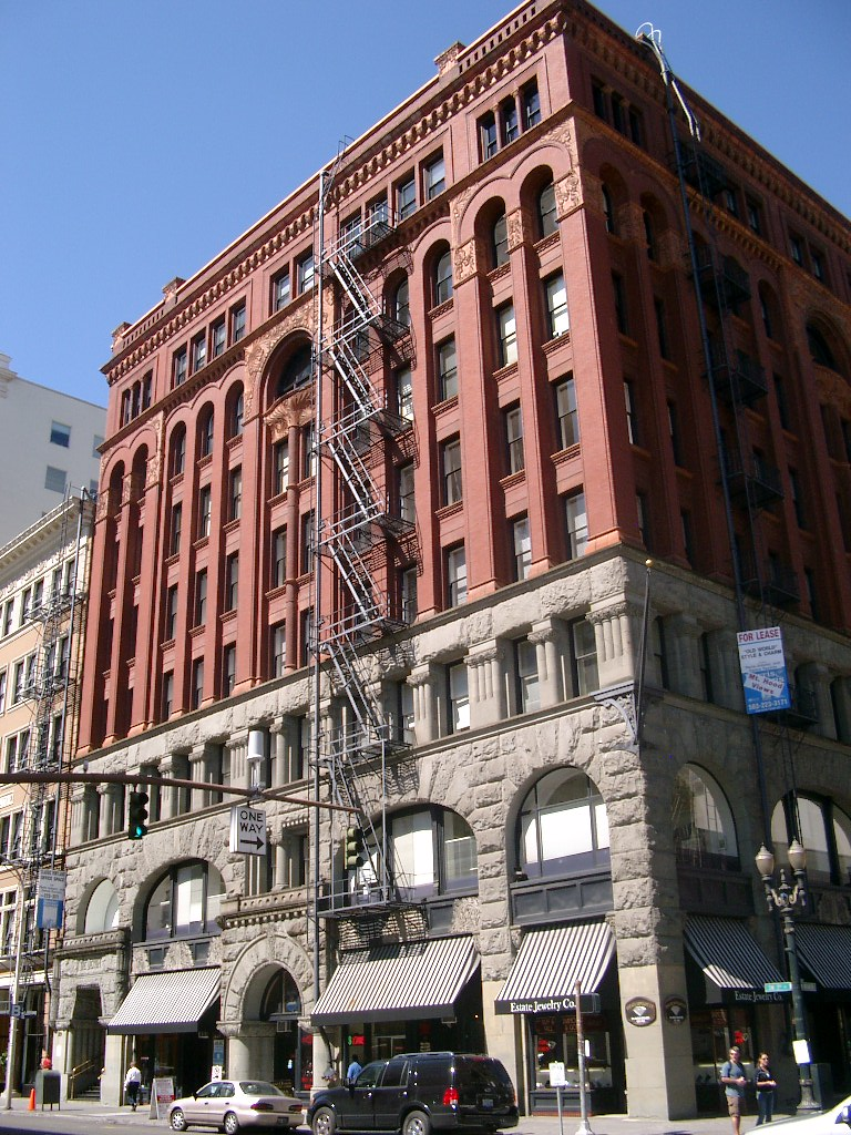 The historic Dekum Building in Portland, Oregon. Taken by myself, Ajbenj